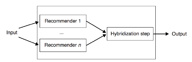 Sketch of a recommendation system